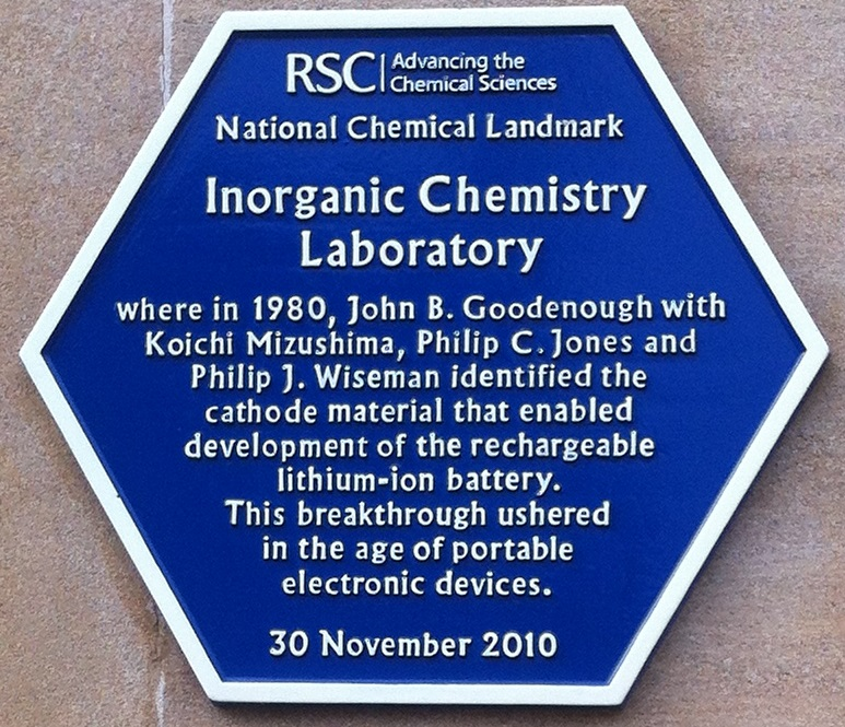 Plaque commemorating work towards the rechargeable lithium-ion battery at the Inorganic Chemistry Laboratory, Oxford, UK. Inscription: National Chemical Landmark. Inorganic Chemistry Laboratory. Where in 1980, John B. Goodenough with Koichi Mizushima, Philip C. Jones and Philip J. Wiseman identified the cathode material that enabled development of the rechargeable lithium-ion battery. This breakthrough ushered in the age of portable electronic devices. 30 November 2010